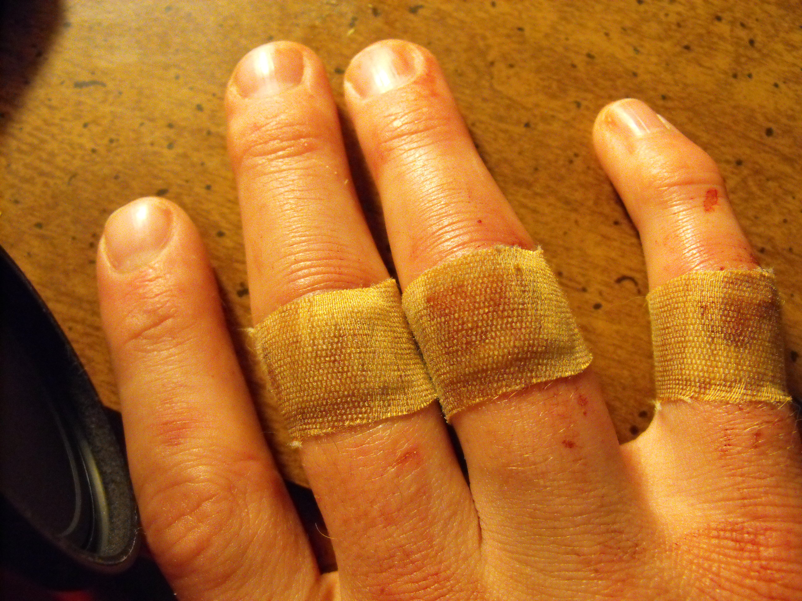 bandaged knuckles